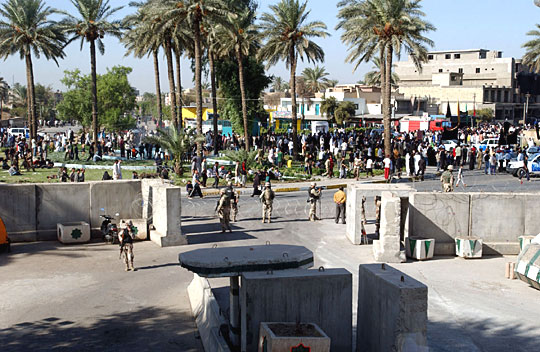 Iraqi Shiite pilgrims crowd outside the main gate of Camp Justice.